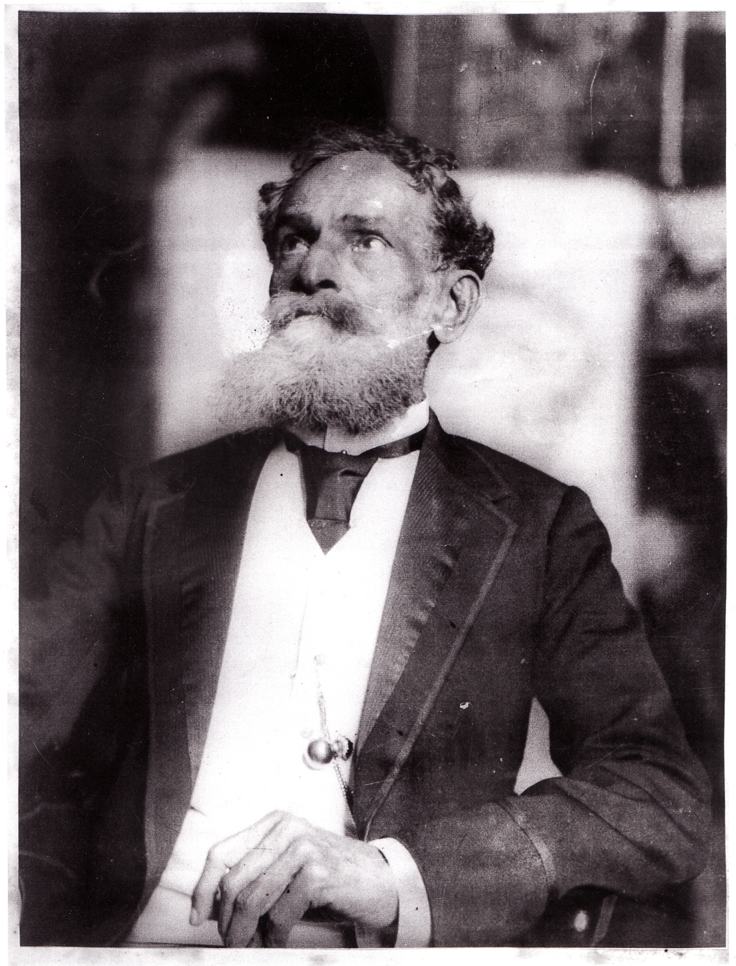 Photograph of Brazilian President Deodoro da Fonseca in the studio of the Bernardelli brothers. This picture was used in Henrique Bernardelli's painting, "Proclamação da República".